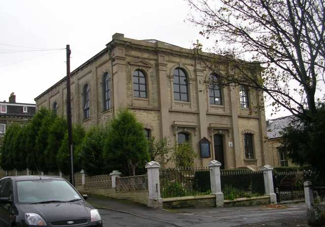 Serbian Orthodox Church - Boothtown Road This is housed in a former Wesleyan Methodist Church.